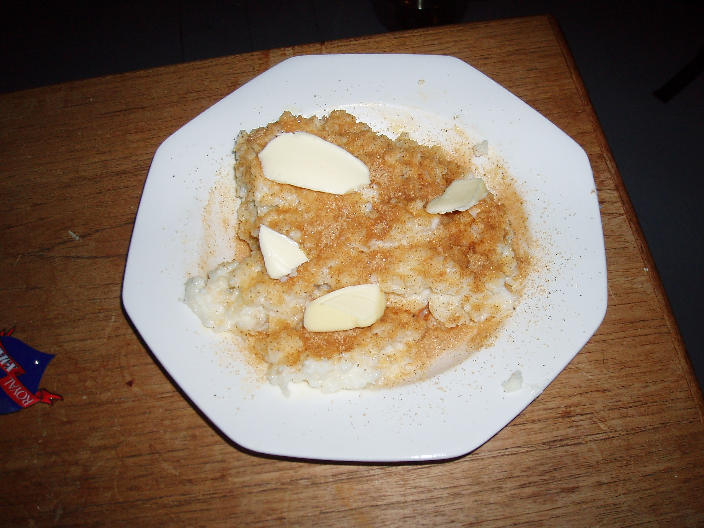 Danish "risengrød" (rice pudding). Popular Christmas dish in the Nordic countries consisting of milk, salt, sugar and rice. Usually sprinkled with an combination of cinnamon and sugar with one or more lumps of butter on top.